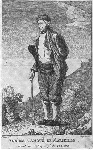 Annibal Camoux (1638?-1759), legendary french supercentenarian.